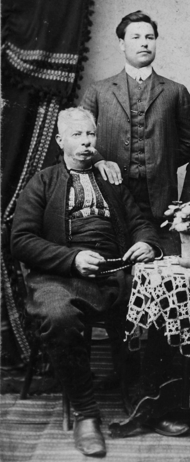 portrait